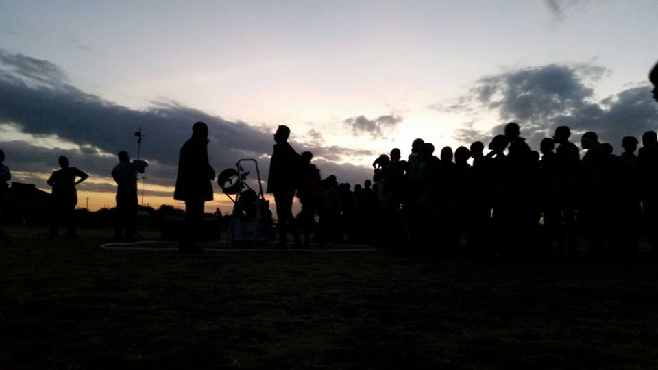 This photo was taken in Kenya, Machakos county at a school known as KInanie. Kids are lining up for a chance to see Saturn through the Telescope, their parents also viewed last. This is an image of "African people at work" from Kenya